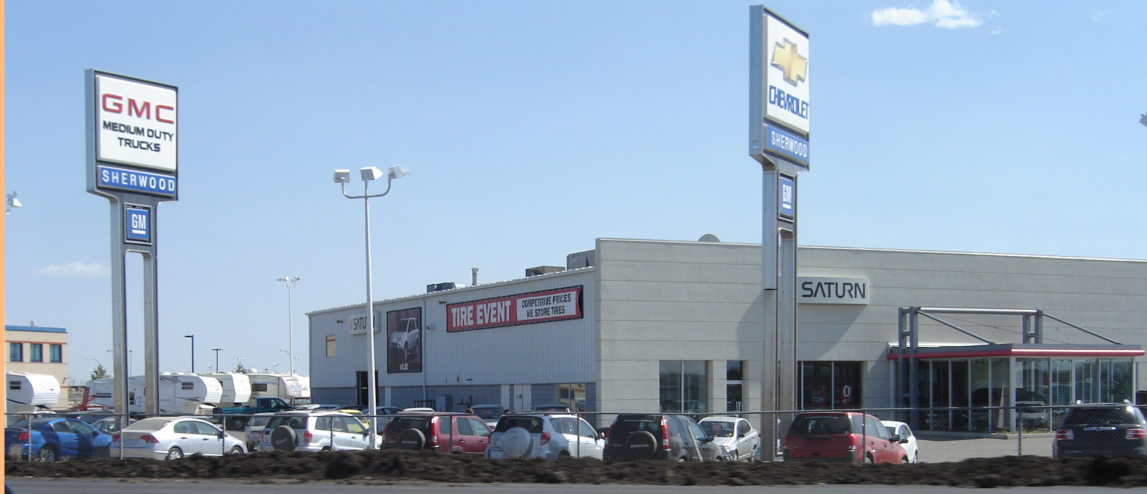 Saskatoon Auto Mall a part of the C.N. Industrial, Saskatoon subdivision Saskatoon, Saskatchewan, Canada